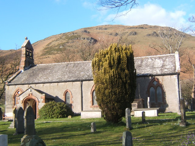 St Mary's Church, Whicham The flank of Black Combe in the background is called Parsonage Breast on the OS 1:25,000 map.